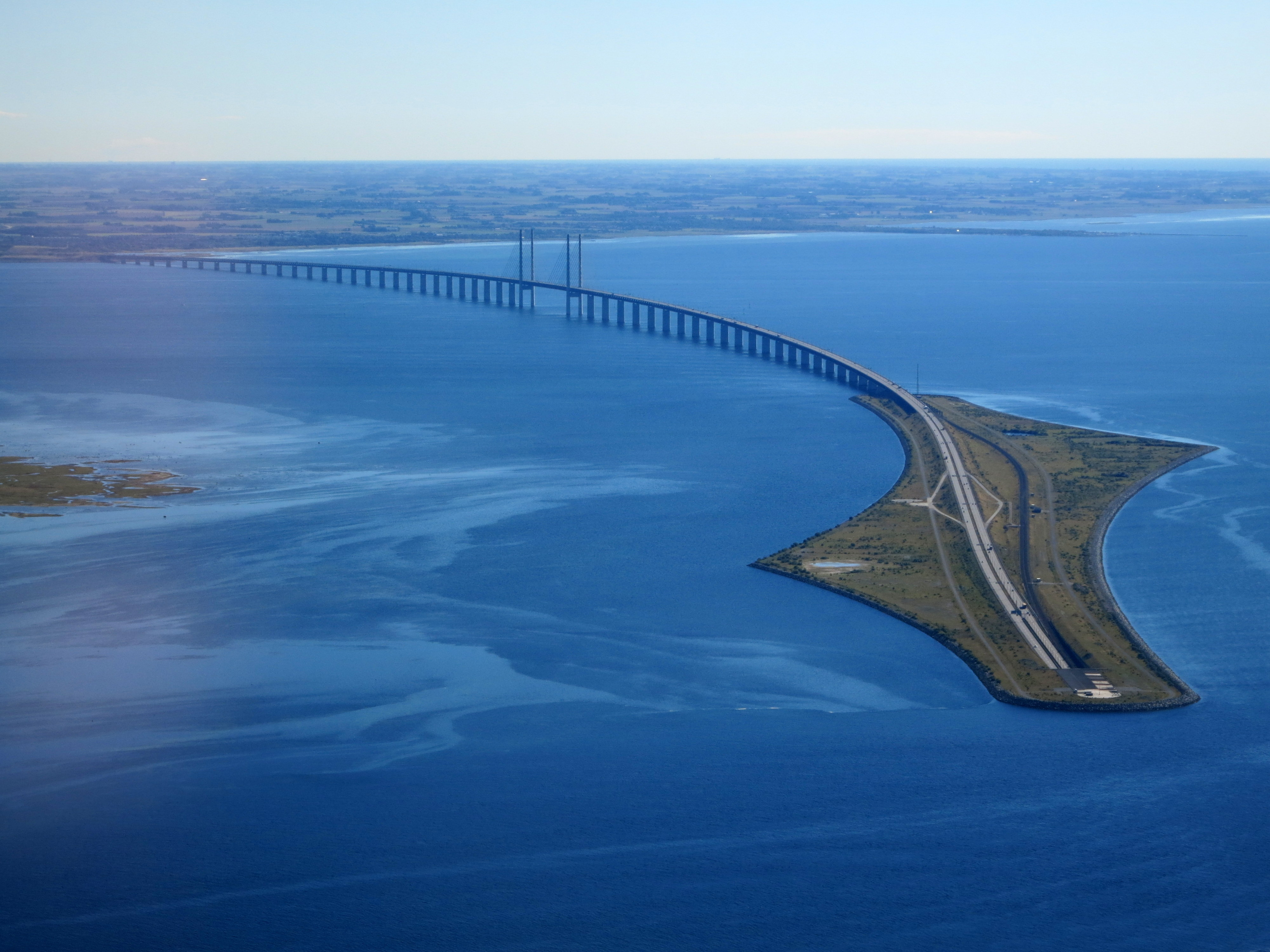 Øresund Bridge viewed from a plane taking off from Copenhagen Airport